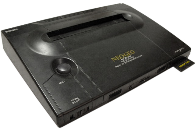 Photo of a Neo Geo AES video game console